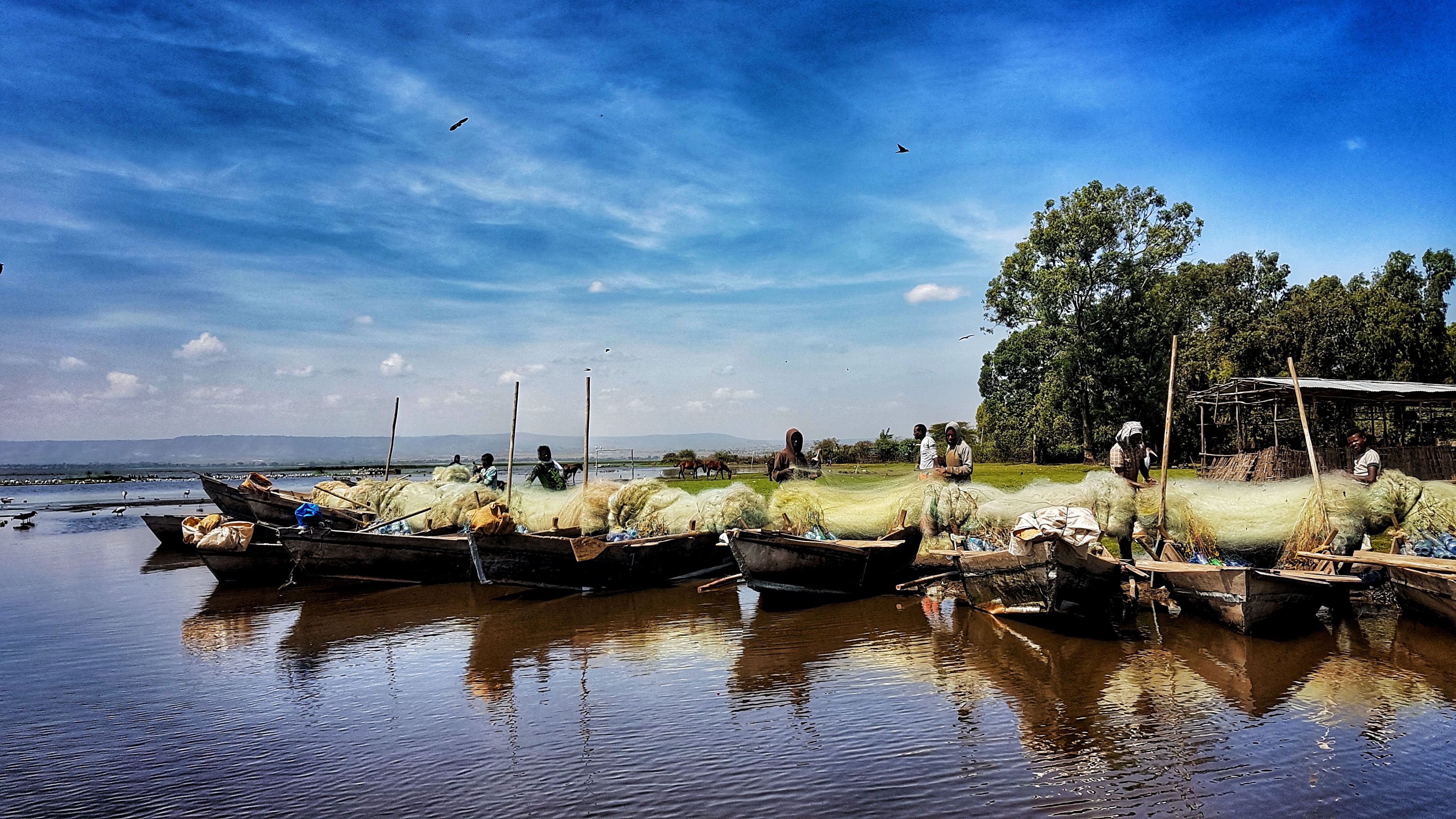 This is an image with the theme "Africa on the Move or Transport" from: Ethiopia